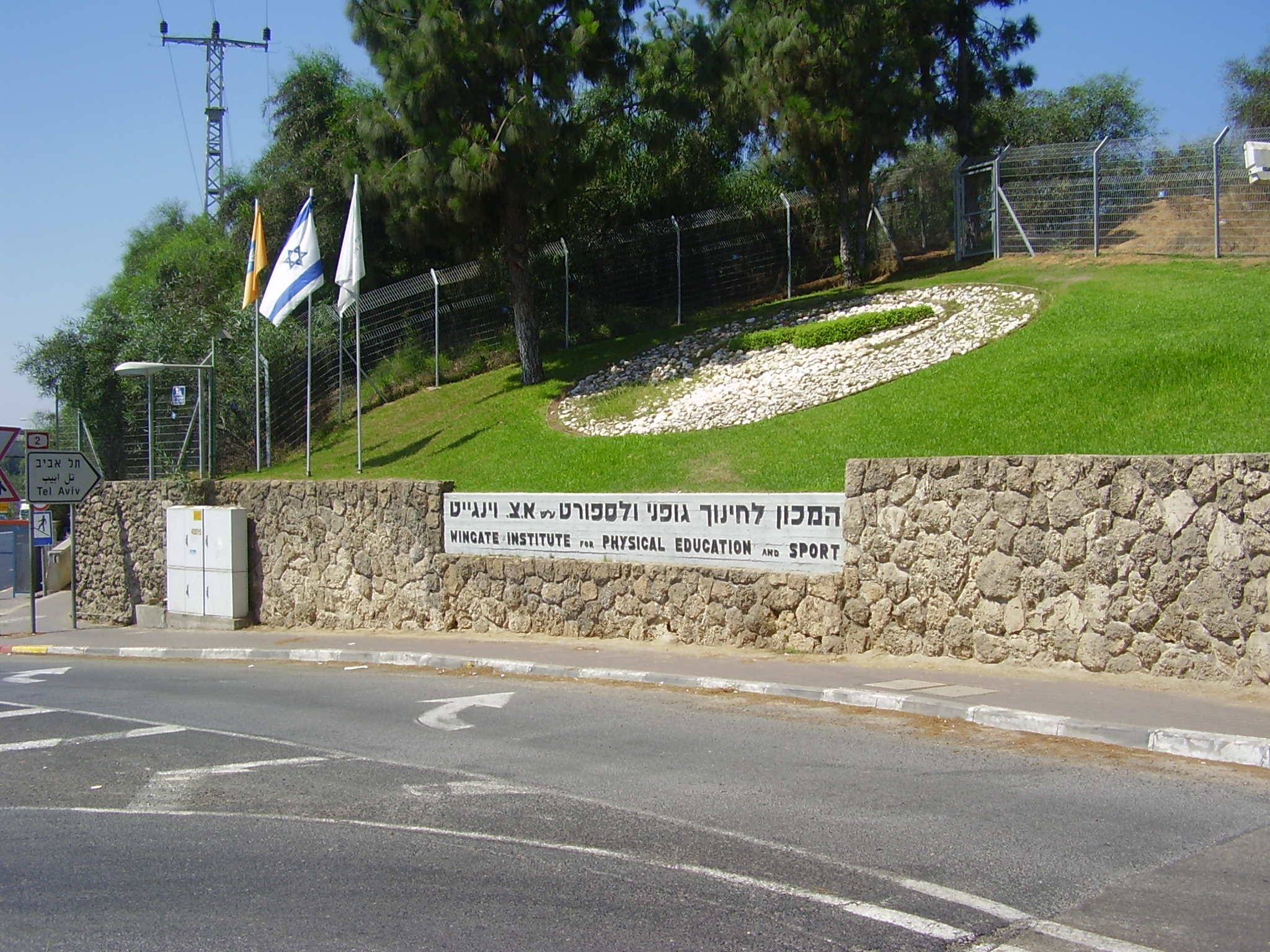 Entrance to Wingate Institute